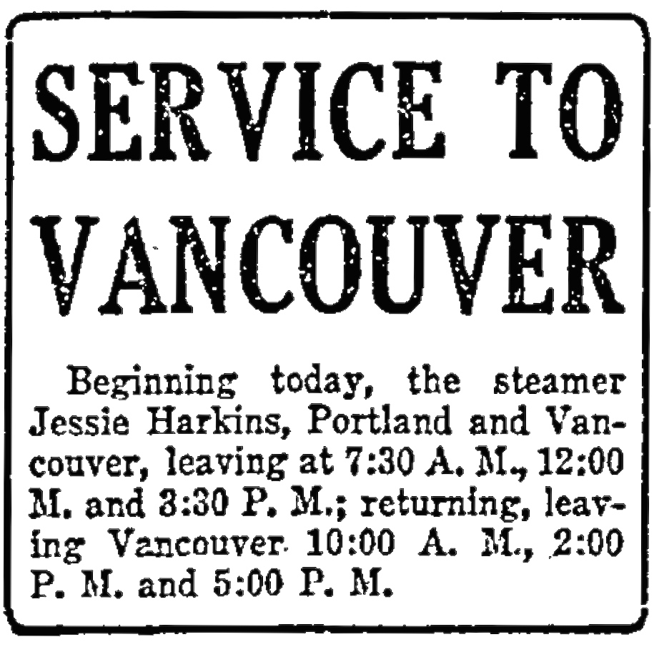 Advertisement for steamer Jessie Harkings, placed in Morning Oregonian February 3, 1916.